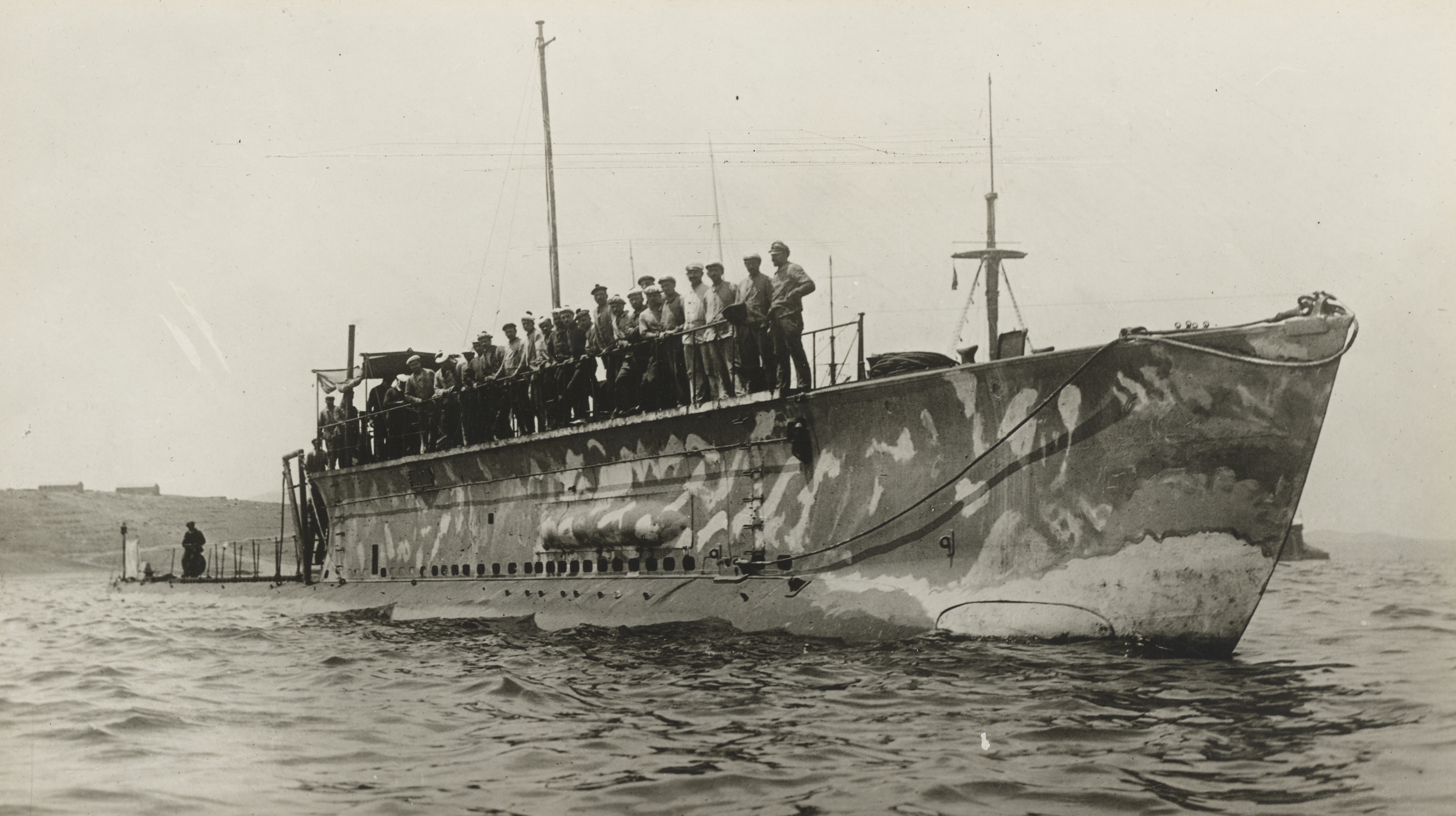 French submarine Mariotte [1]